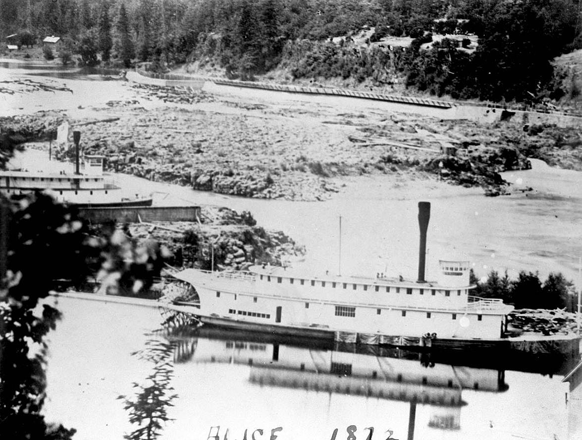 Sternwheeler Alice (foreground) in the boat basin at Oregon City. Sternwheeler Albany (left background) in the dry dock. Sometime between 1873 (date Alice reconstructed with cover over stern-wheel) and 1875 (date Albany wrecked). Previously published at The Oregonian, July 29, 1917, page 36, col.1, which is the source of the identification of the Albany in this image. The canal for the Willamette locks and canal improvement can be seen across the river.